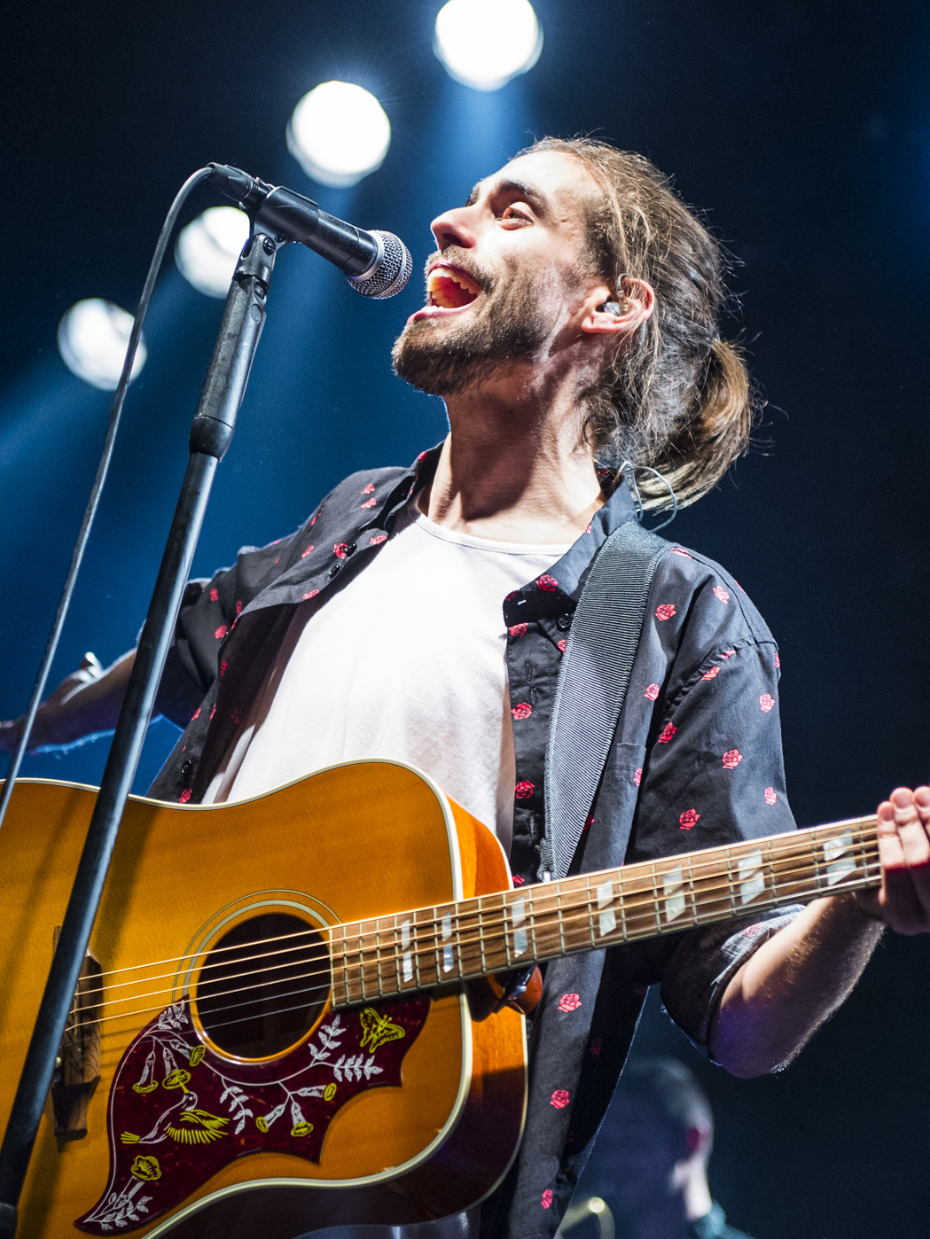 Uri Giné at Sala Apolo in Barcelona, Spain on December 16, 2015.